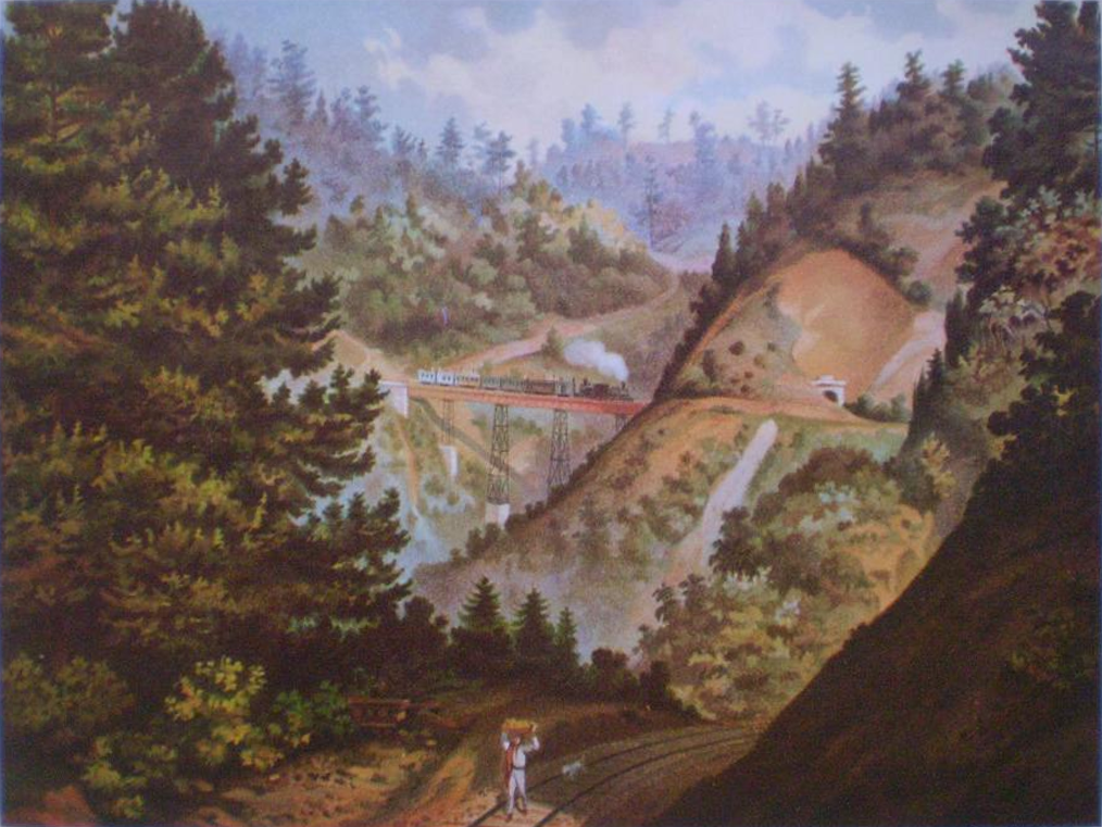 .Picture from the "Album of the Mexican Railway". Pictues by Casimiro Castro. Text by: Antonio Garcia Cubas. Published by Víctor Debray. Year: 1877 Bilanguage edition english and spanish.